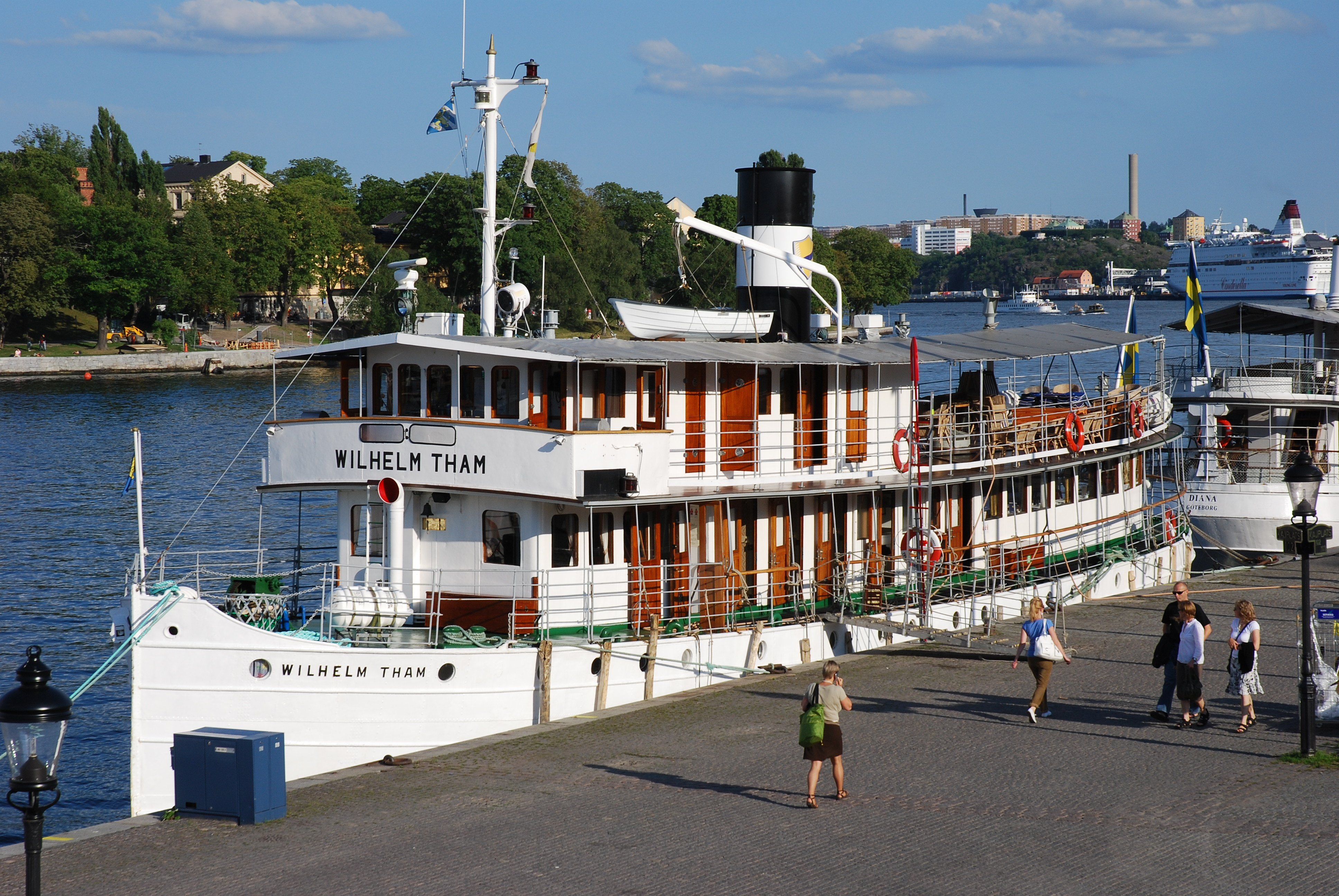 M/S Wilhelm Tham This is an image of the protected Swedish ship M/S Wilhelm Tham, with call sign SHIG .